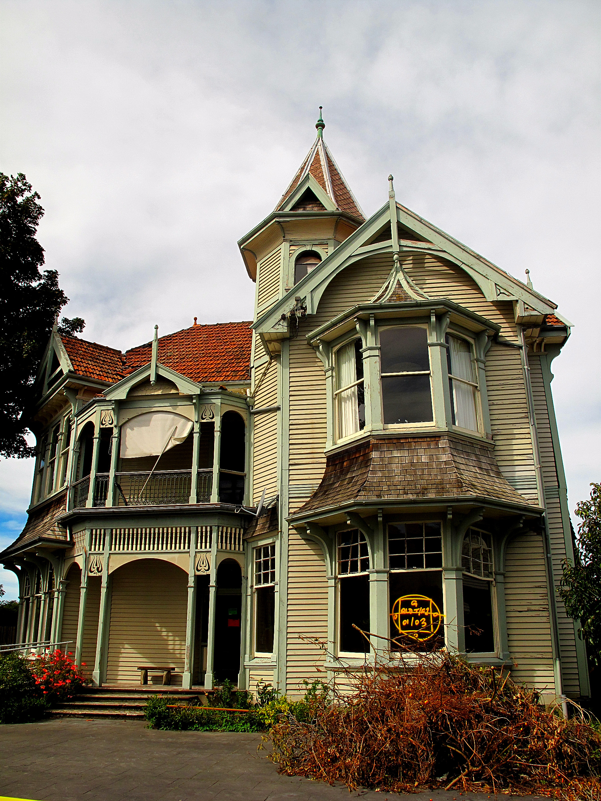 (Mon 14-3-2011) This grand mansion on Colombo Street suffered moderate damage in the 22 February 2011 magnitude 6.3 earthquake in Christchurch.